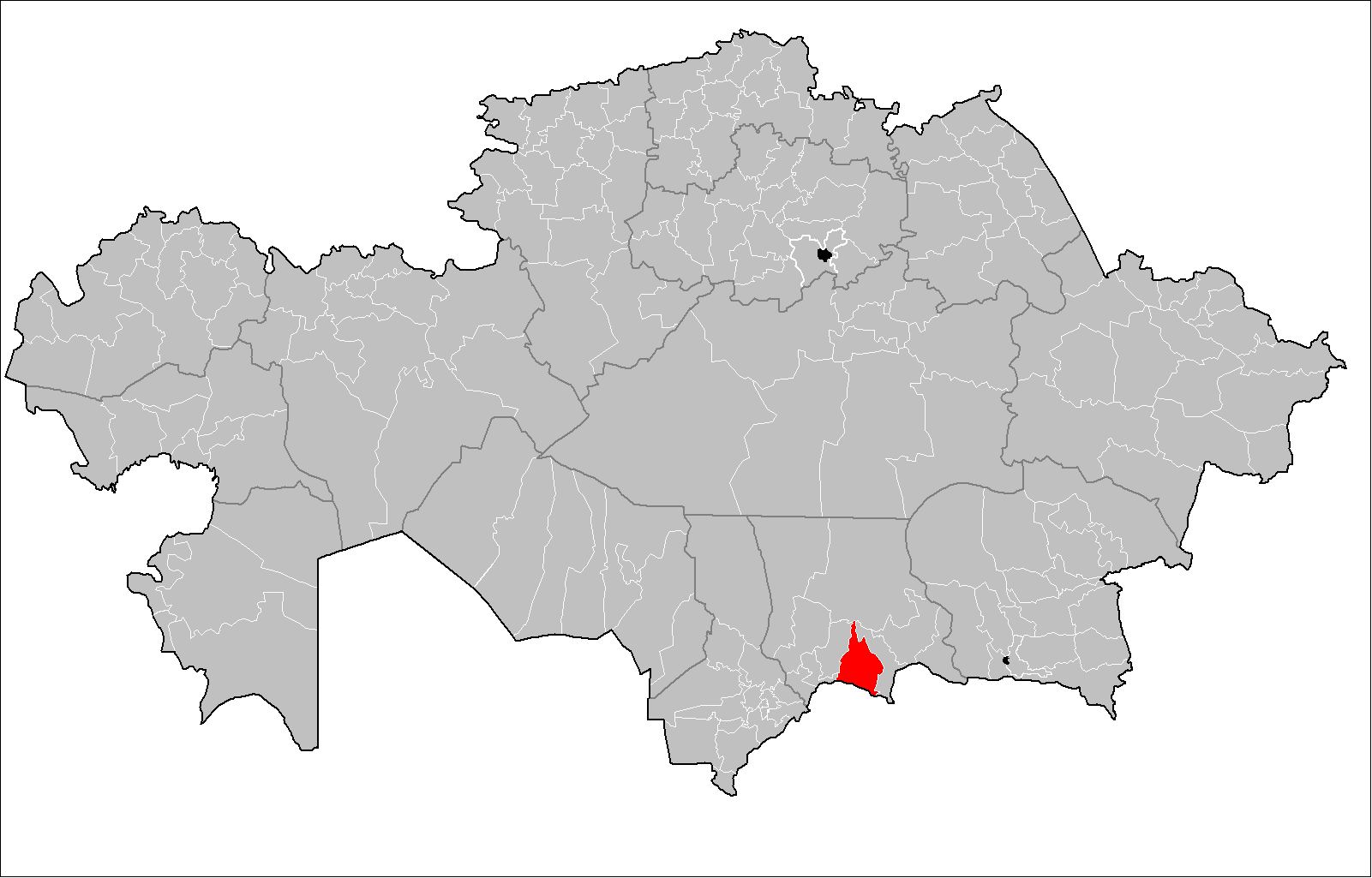 Map of the rayons of Kazakhstan. Created by Rarelibra 16:49, 3 August 2007 (UTC) for public domain use, using MapInfo Professional v8.5 and various mapping resources.